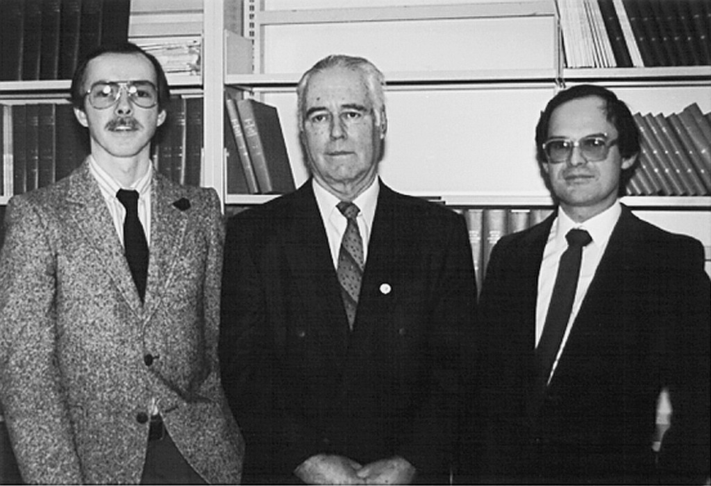 Left to right: René Laprise, André Robert, Jean-Pierre Blanchet. Photo probably taken at UQÀM or McGill.